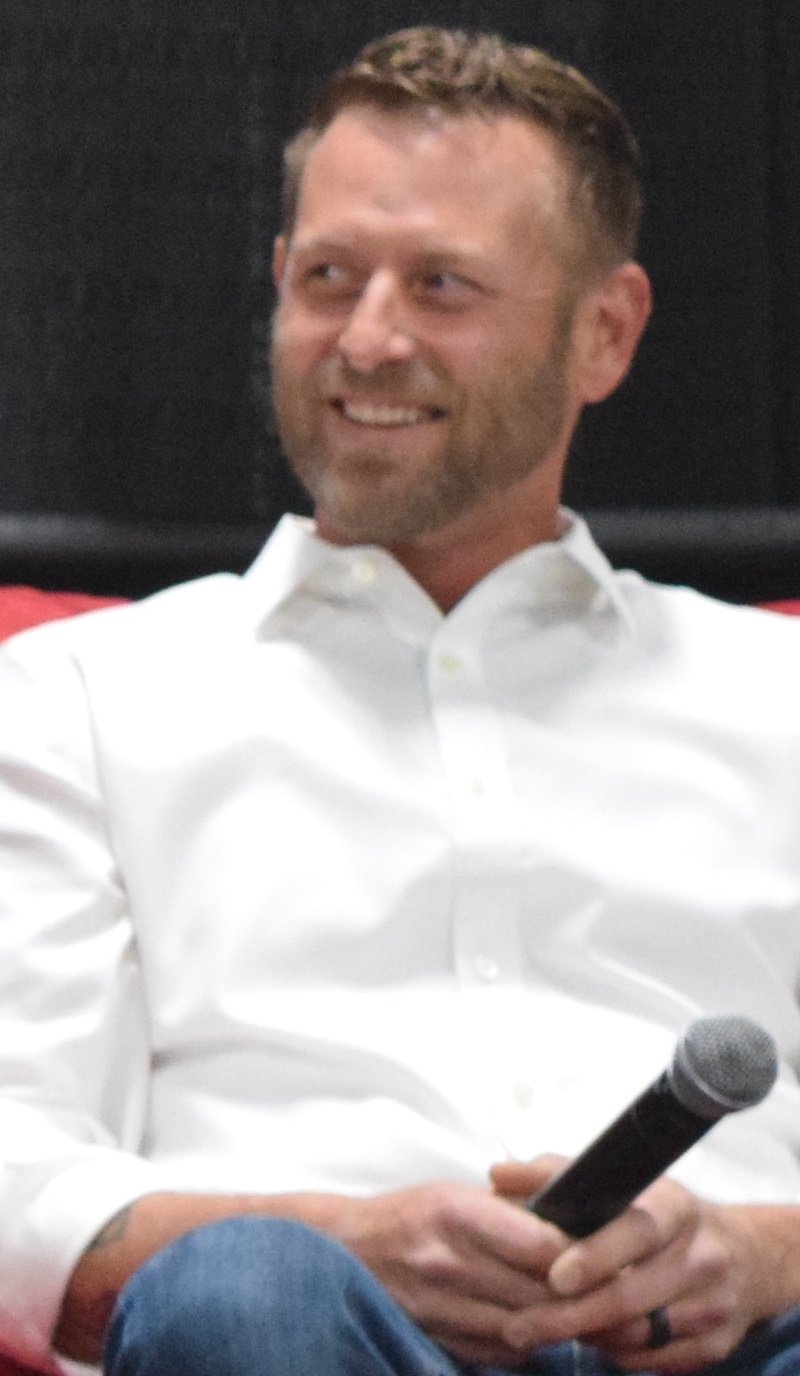 Rob Wiethoff at Great Philadelphia Comic-Con 2019.